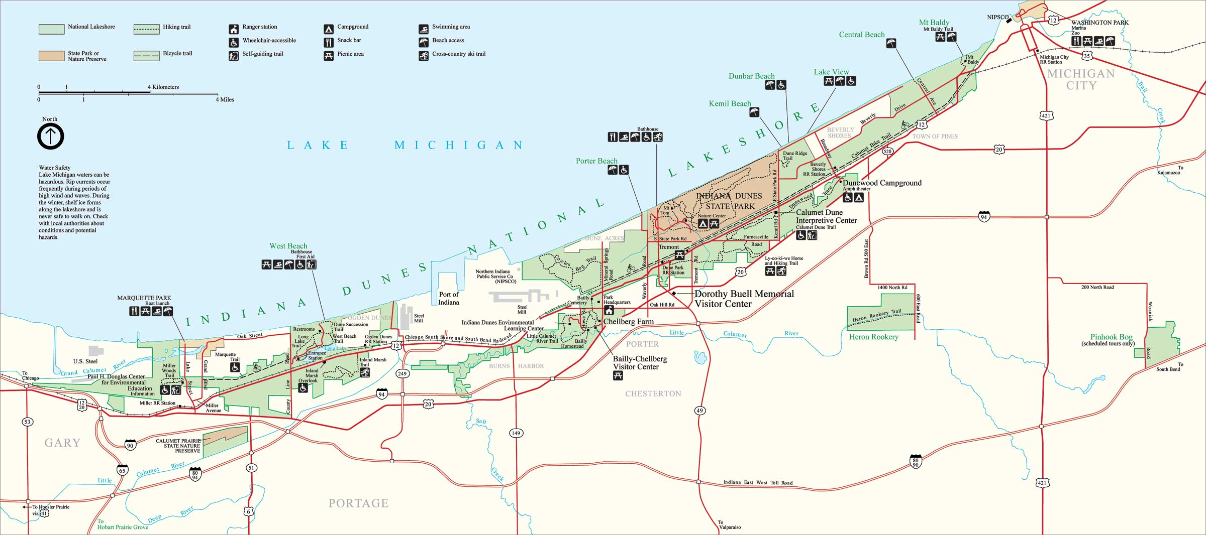 Indiana Dunes National Lakeshore map